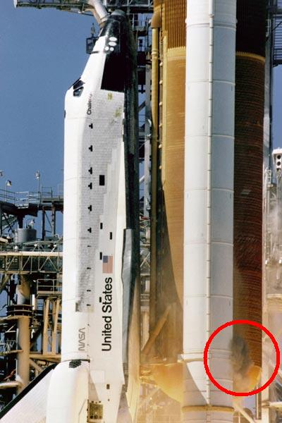 Štart raketoplánu Challlneger STS-51-L. V červenom krúžku je oblak spalín z netesnosti motora SRB (Solid Rocket Booster). I upgraded the picture with red circle which marks leaking smoke from the right-hand SRB.